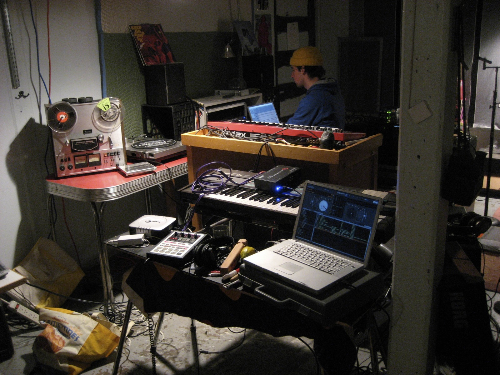 George home studio